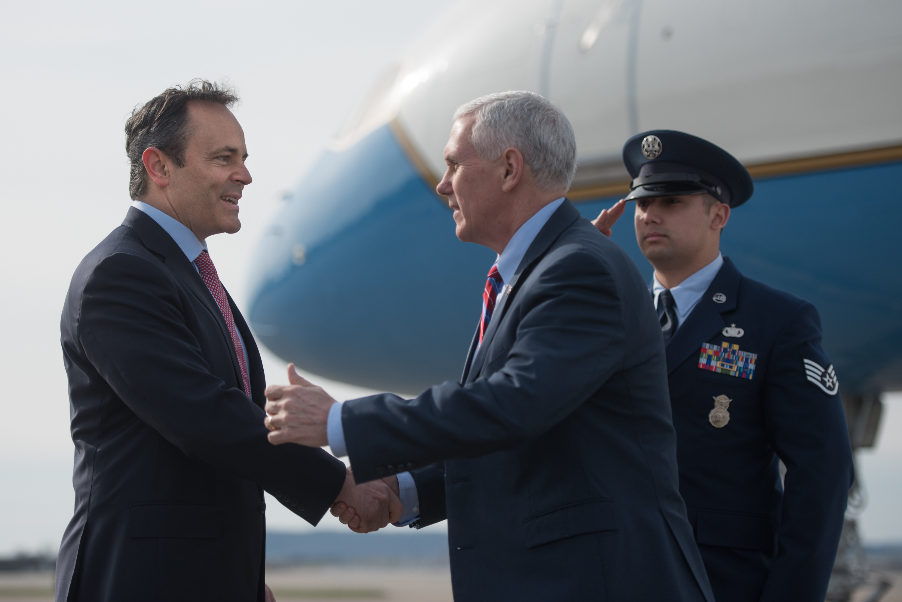 Kentucky Gov. Matt Bevin (left) greets Vice President Mike Pence (center) at the Kentucky Air National Guard Base in Louisville, Ky., March 11, 2017. Pence was in Louisville to speak with local business leaders about health care and the economy. (U.S. Air National Guard photo by Staff Sgt. Joshua Horton)